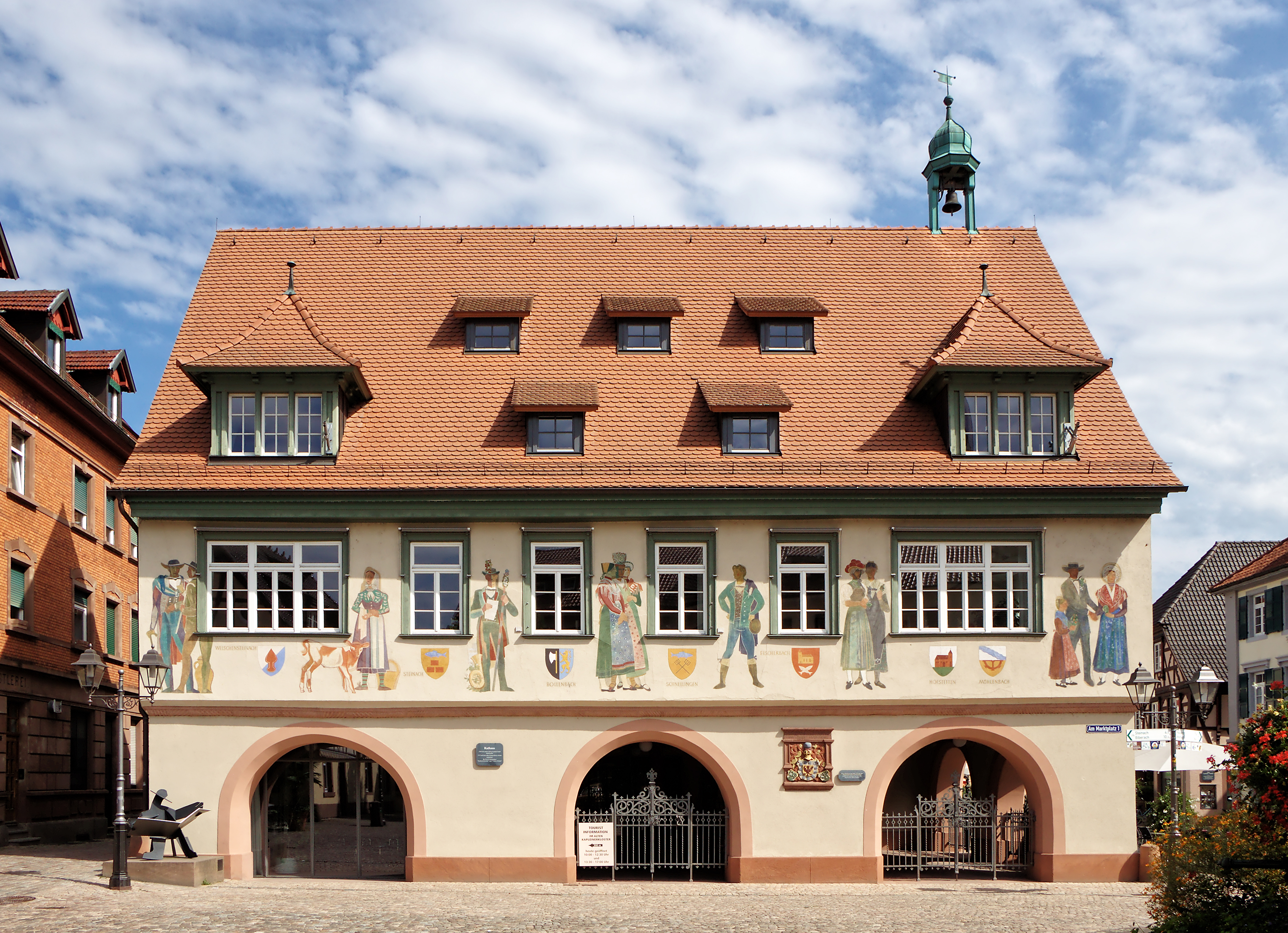 Townhall of Haslach im Kinzigtal, Germany. The townhall was burned down with the largest par of the city in 1704. It was rebuilt on the old ground floor in 1733.